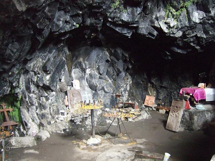 Kuys Varvara (Virgin Varvara) or Tsaghkevank (Flower Monestary), carved in a mountain cave, Mount Ara, Armenia